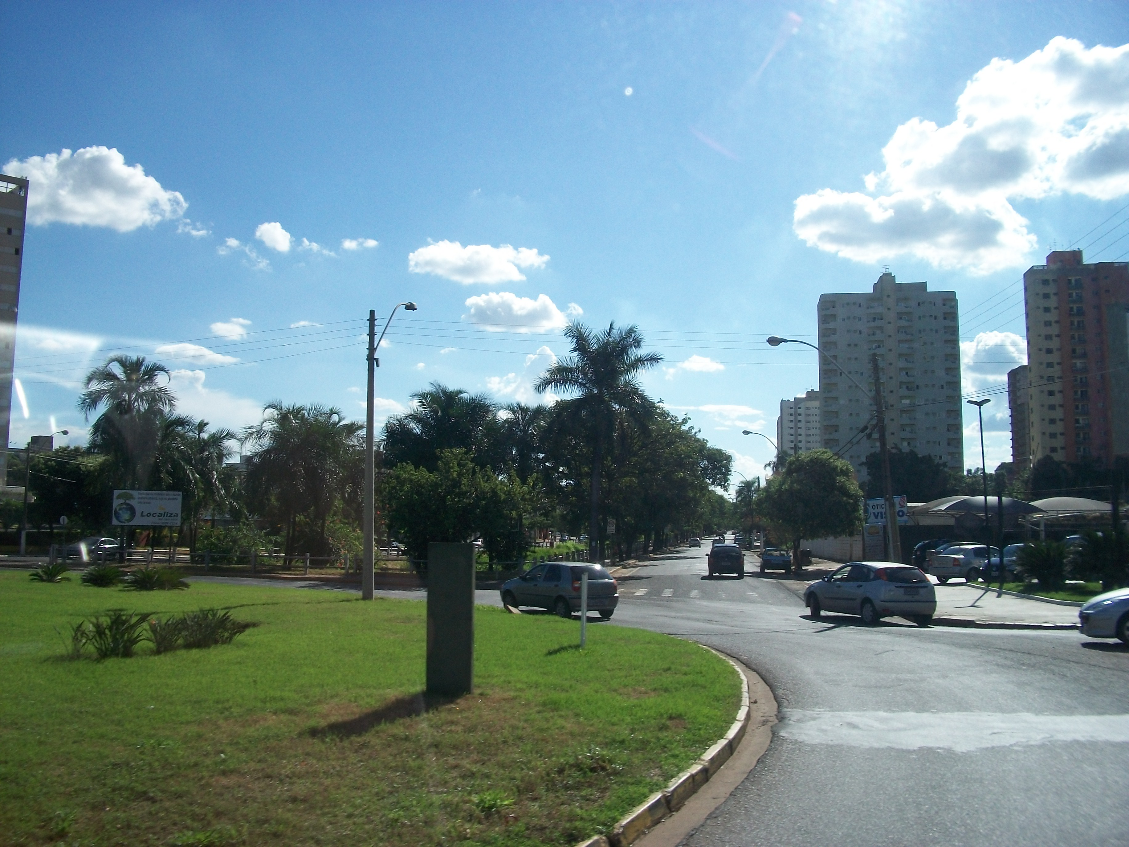 Rotatória da Av.Joaquim Pompeu de Toledo com Av. Brasília em Araçatuba, SP, Brasil.